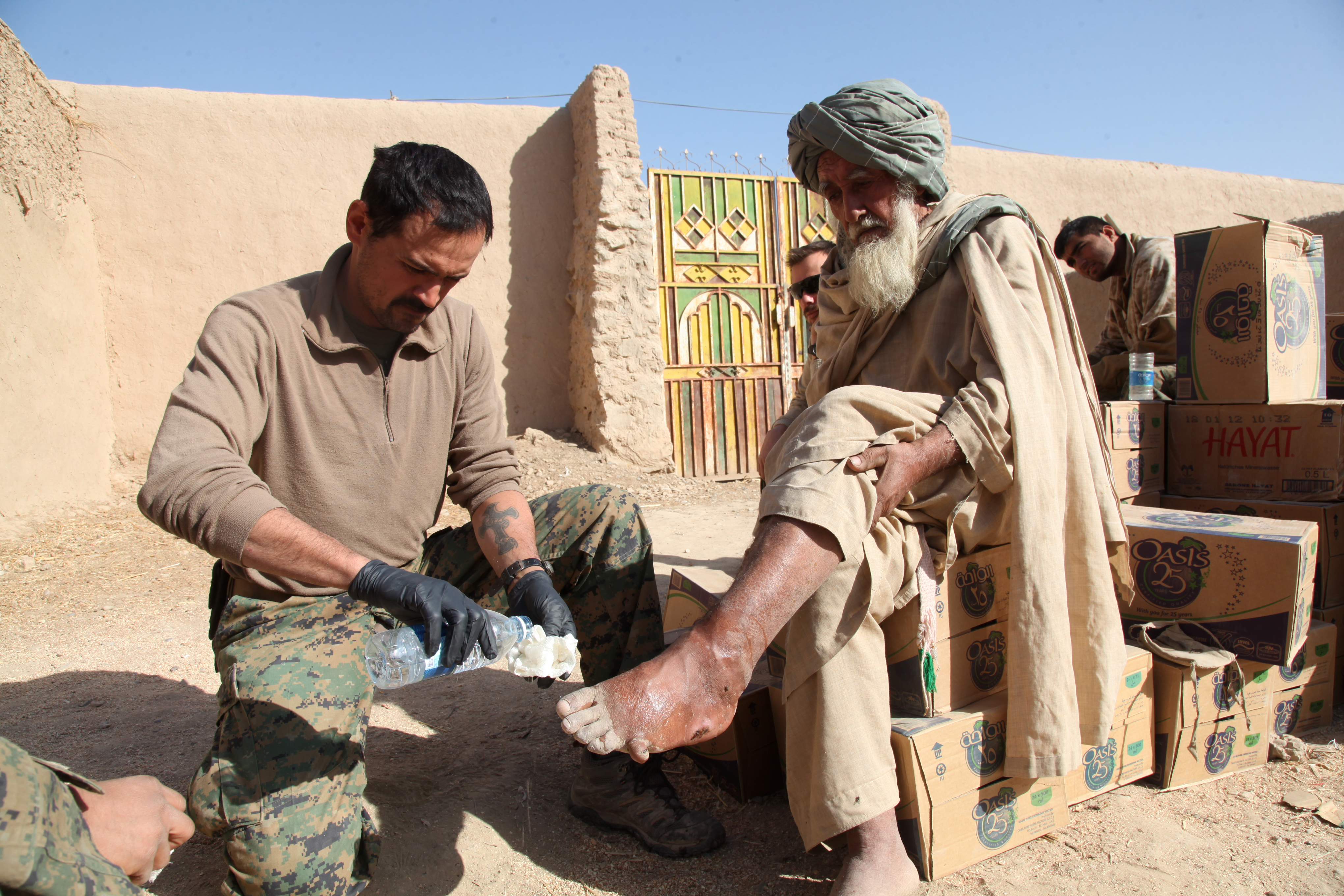 SANGIN, Afghanistan (Nov. 18, 2010) A hospital corpsman assigned to Company B, 1st Reconnaissance Battalion, cleans a local Afghan elder's foot to check for infection at a patrol base near Sangin, Afghanistan. The Marines of Company B are conducting counterinsurgency operations in support of the International Security Assistance Force. (U.S. Marine Corps photo by Cpl. William J. Faffler/Released)